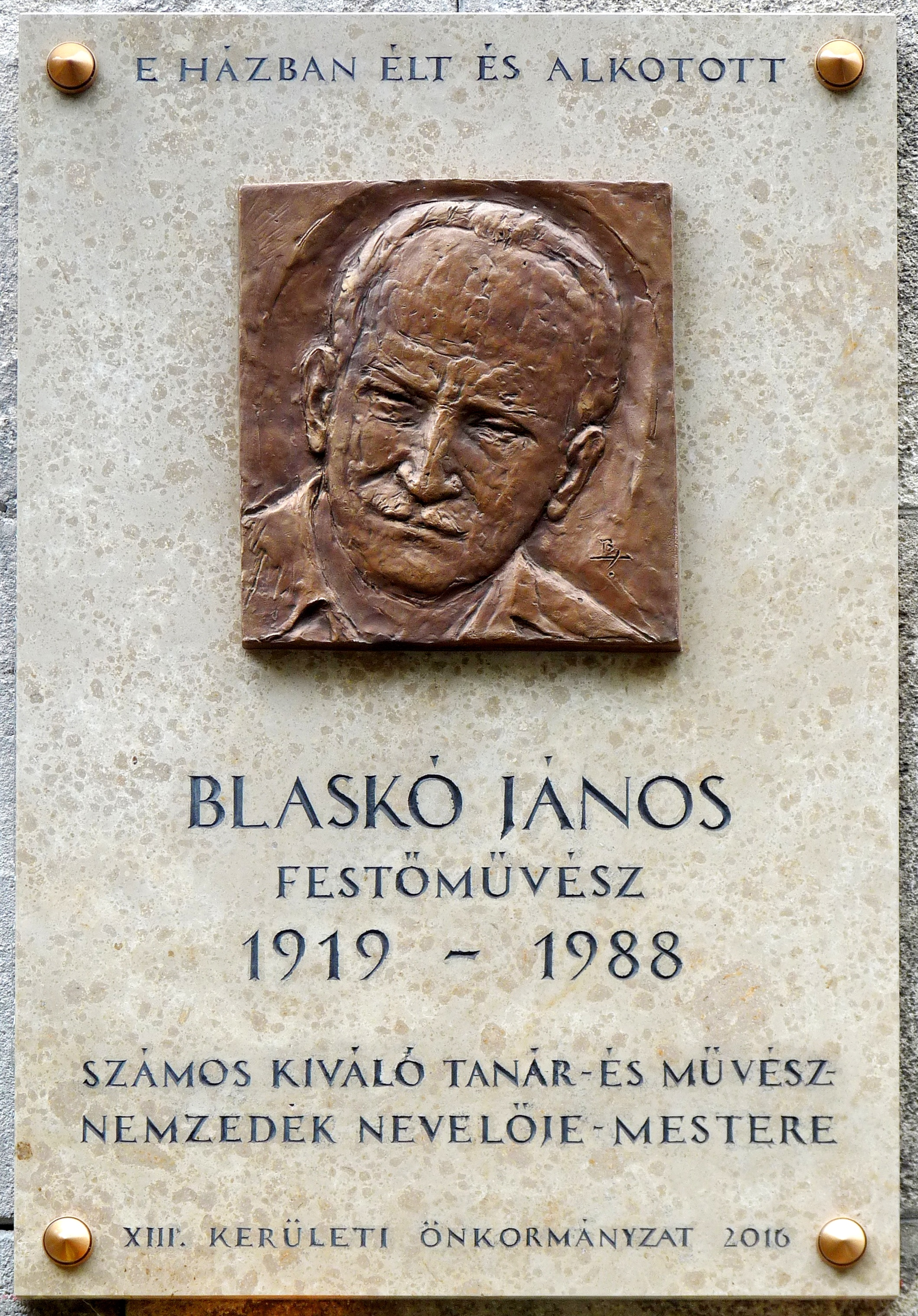 Commemorative plaque to Mr. János Blaskó (1919–1988) Hungarian painter and full professor. It is affixed to the wall of the "House of Artists" where he lived and worked from 1963 until his death. The author of the bronze relief is his son, János Blaskó, jr. The plate has been unveilled October 12, 2016. (Budapest, District XIII, Máglya Alley Nr 3)